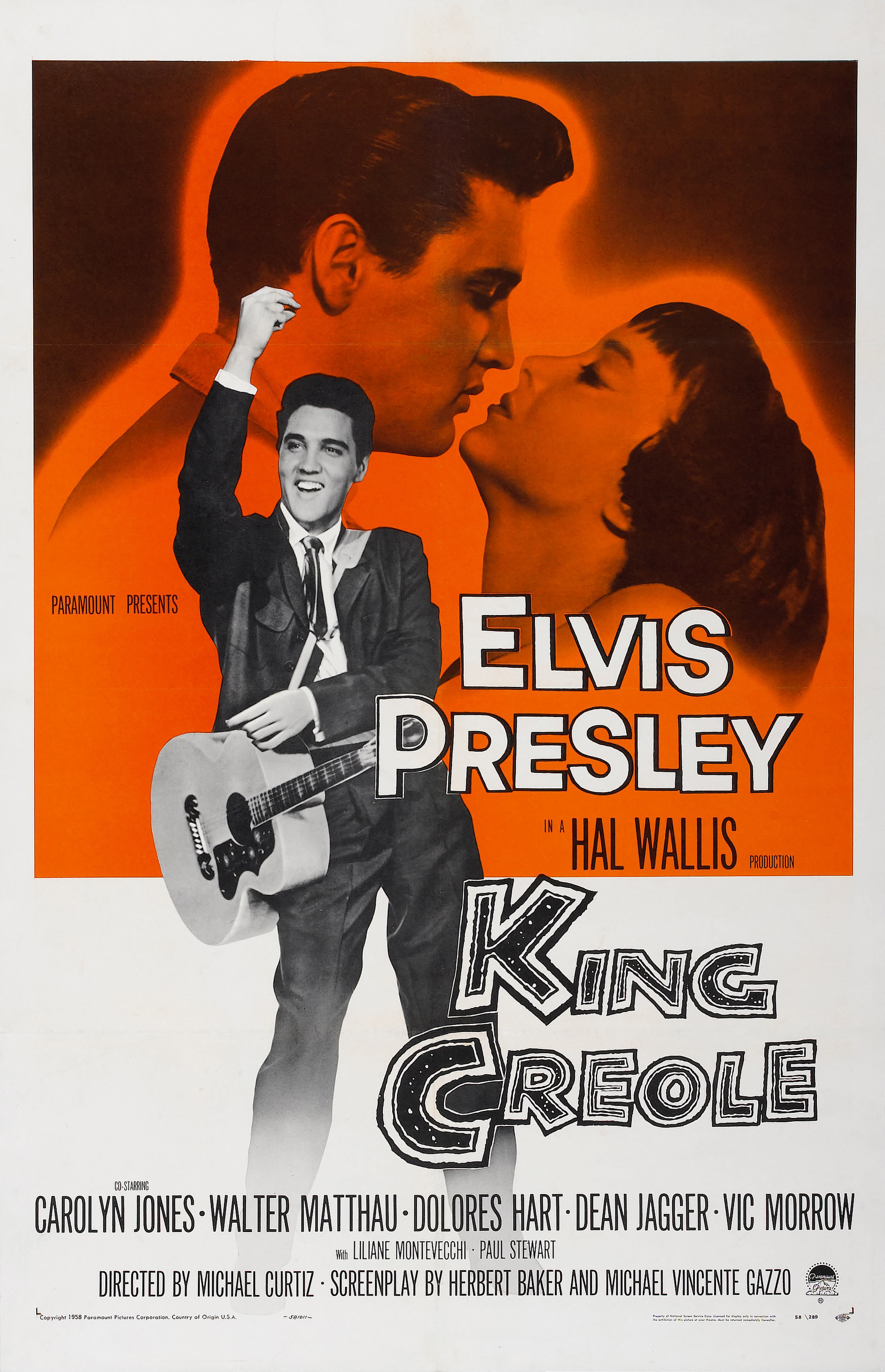 Low-resolution reproduction of poster for the film King Creole (1958), directed by Michael Curtiz, featuring star Elvis Presley